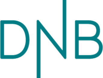 Logo of DNB